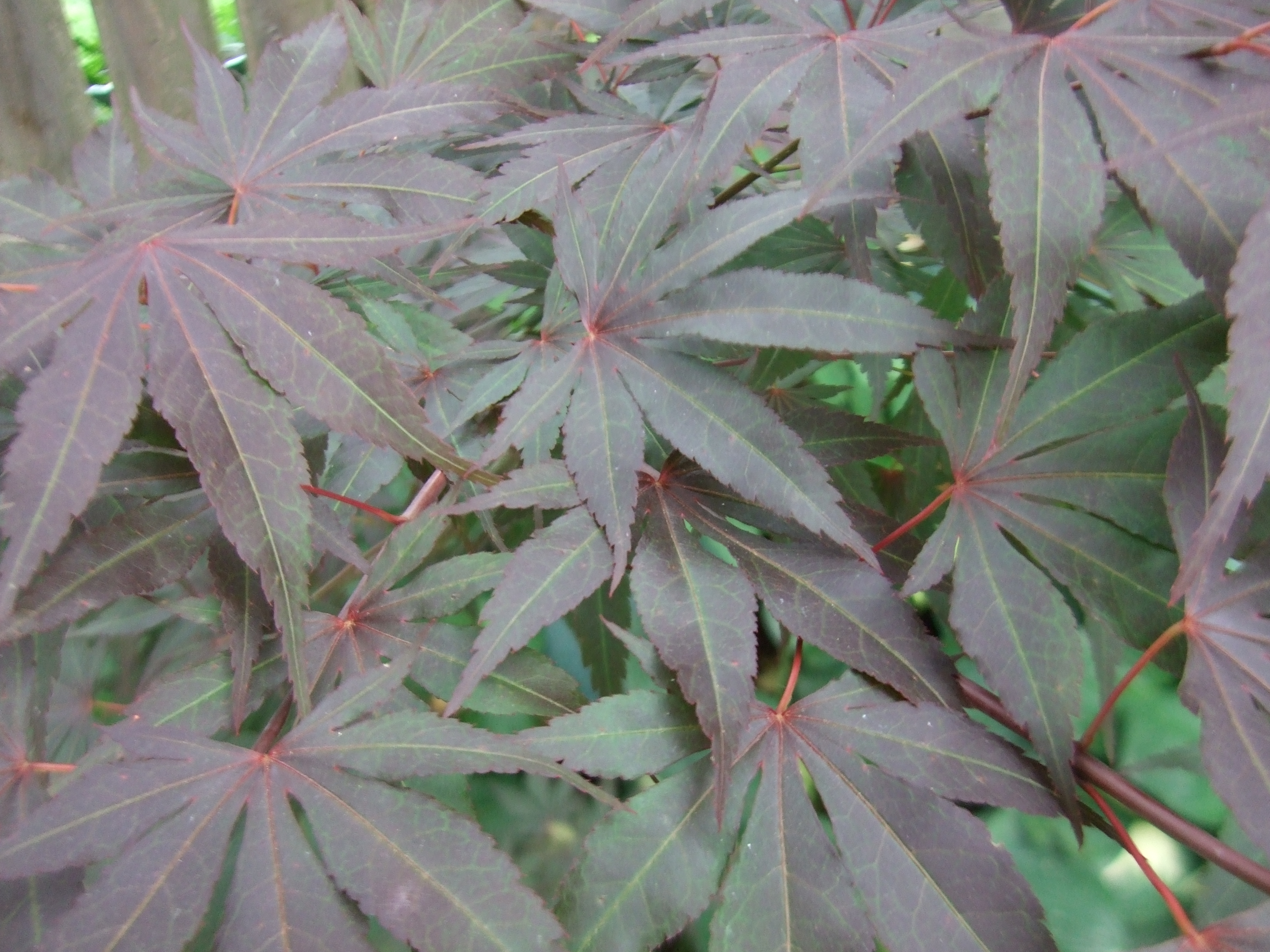 Japanese Maple Foliage